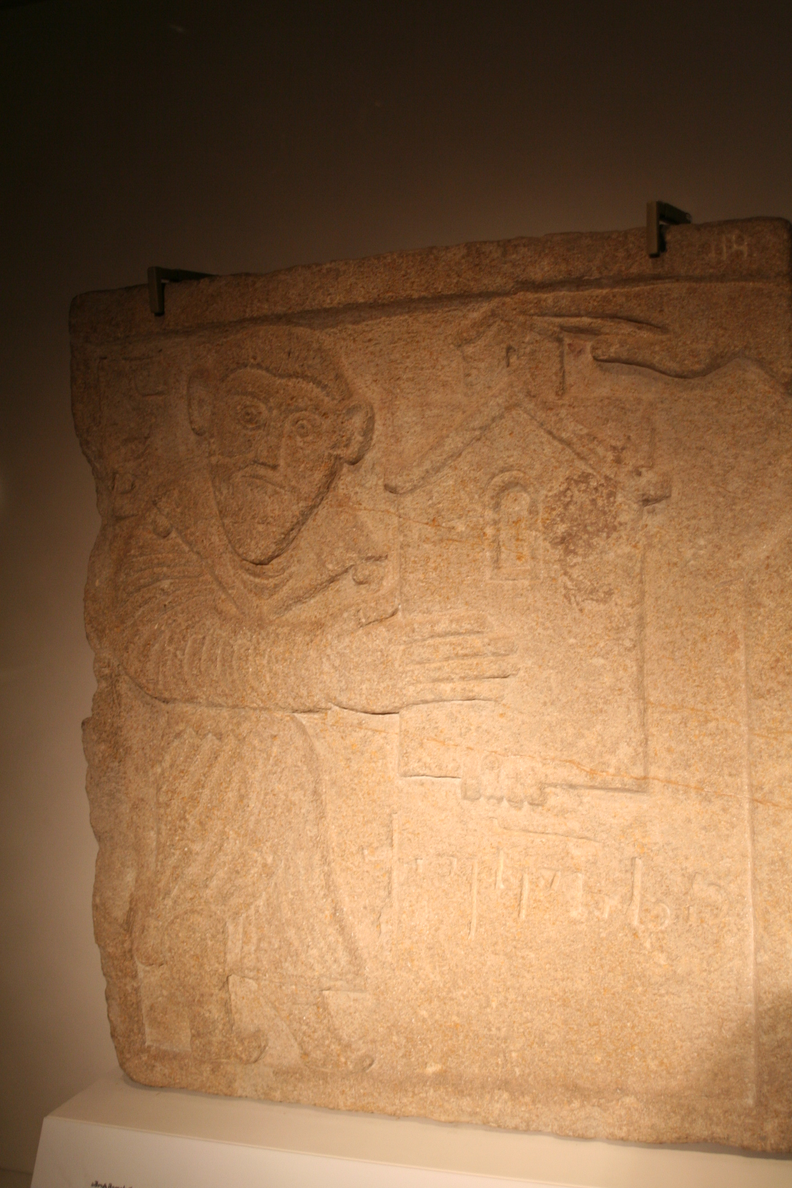 Simon Janashia Museum of Georgia